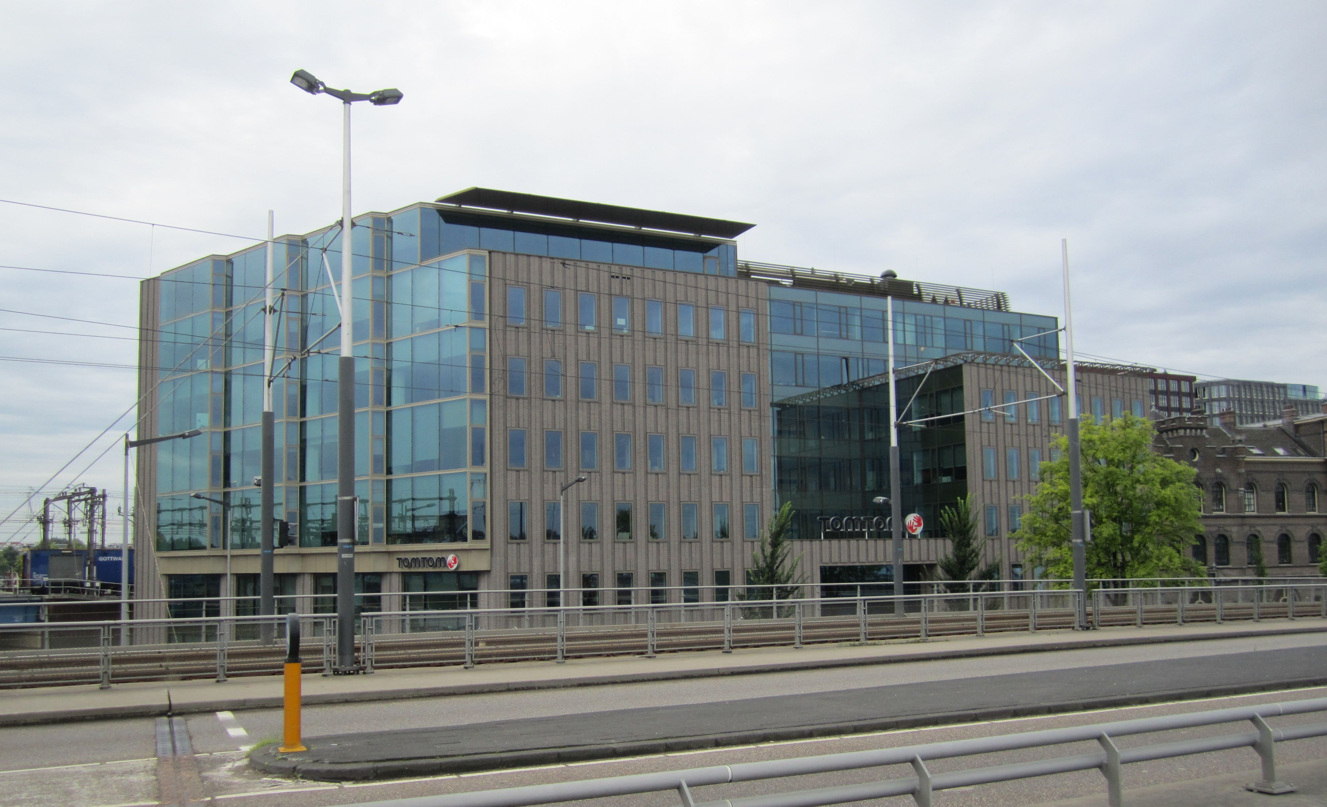 TomTom office, Amsterdam; De Ruijterkade 154.